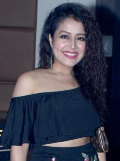 Neha Kakkar snapped at Sargun Mehta’s birthday bash